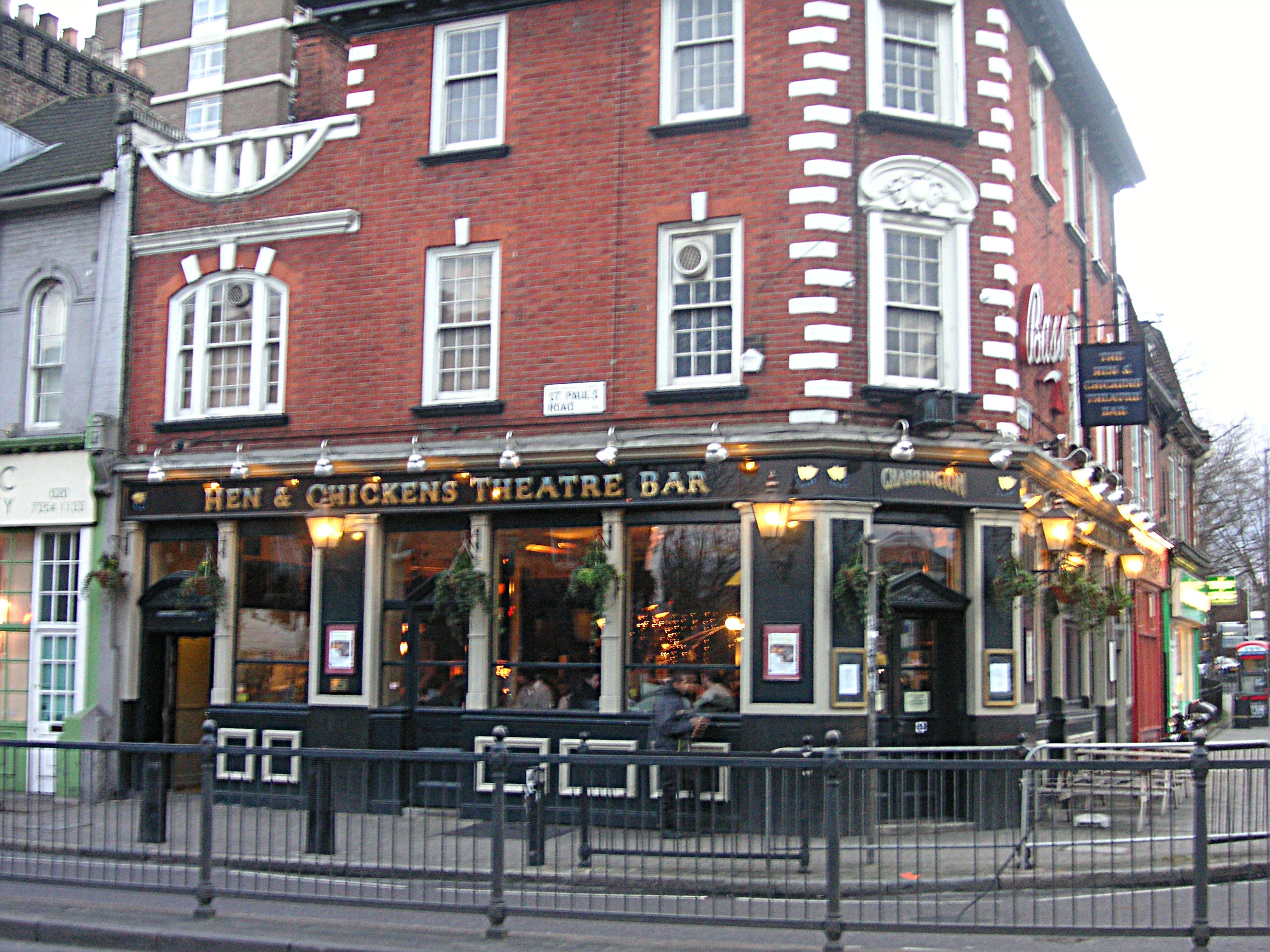 The Hen and Chickens Theatre in February 2005. Photo by KF